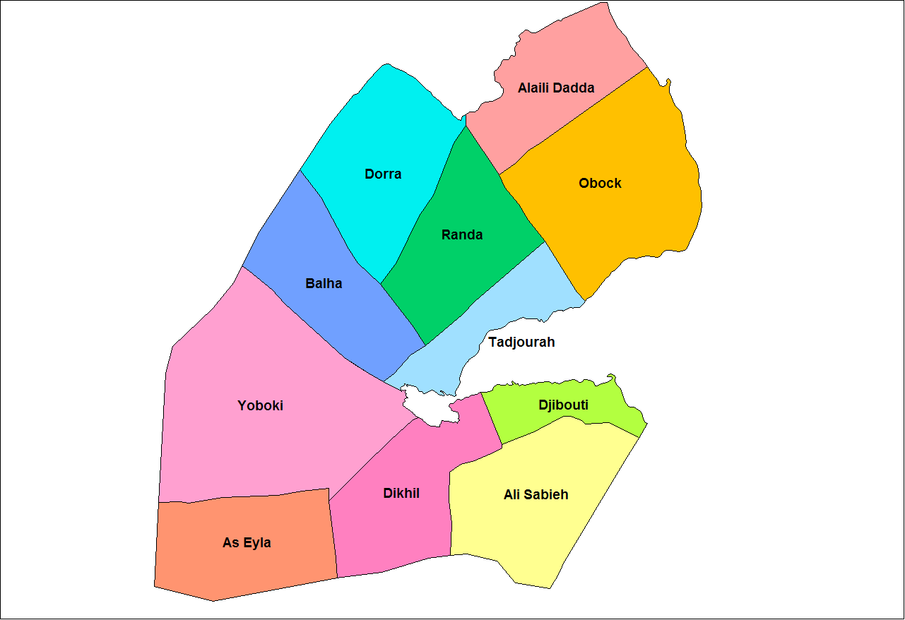 Map of the districts of Djibouti. Created by Rarelibra 17:00, 11 April 2007 (UTC) for public domain use, using MapInfo Professional v8.5 and various mapping resources. Source boundary map